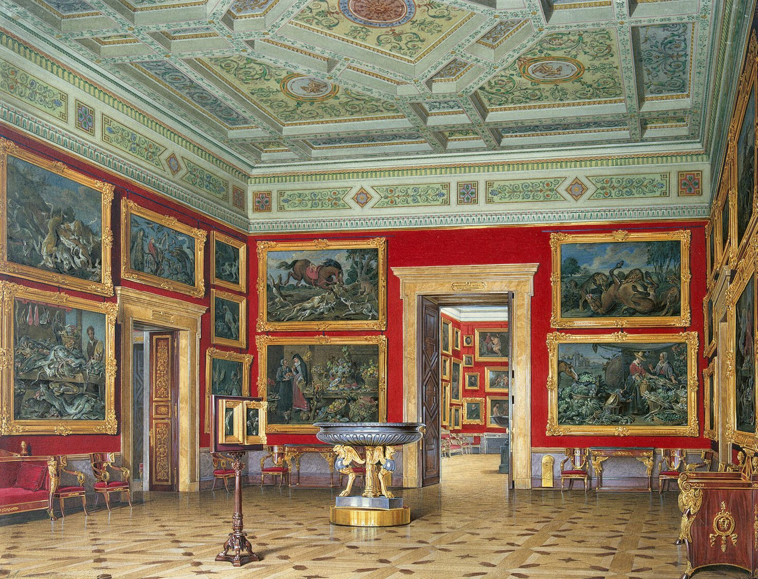 Interiors of the New Hermitage. The Room of Flemish School